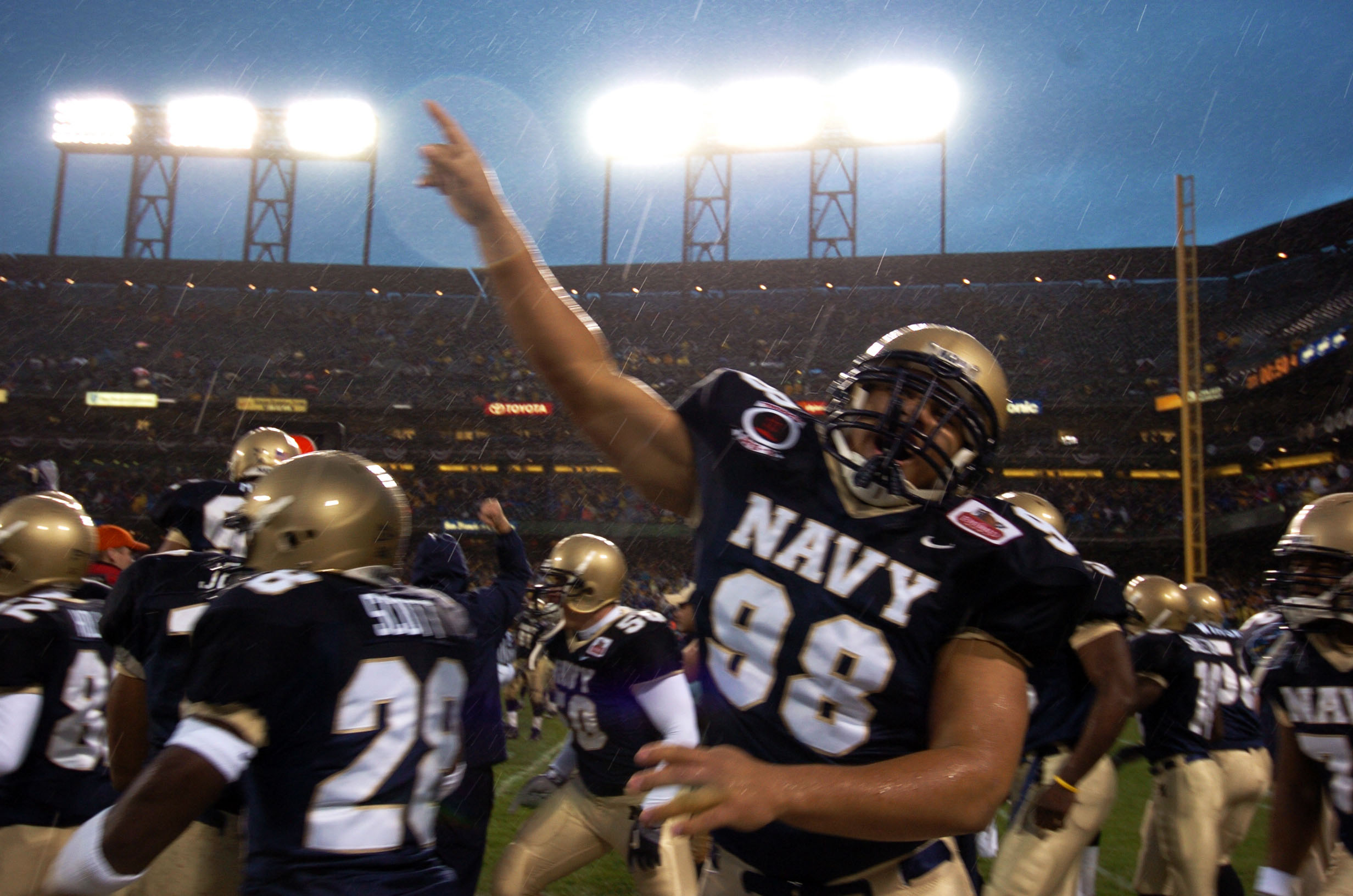 San Francisco, Calif. (Dec. 29, 2004) - U.S. Naval Academy Midshipman football players react in jubilation following their game against the Lobos of New Mexico at the Emerald Bowl in San Francisco. Navy triumphed over New Mexico 34-19 for their first bowl win since 1996 and first 10 game winning record in 99 years.